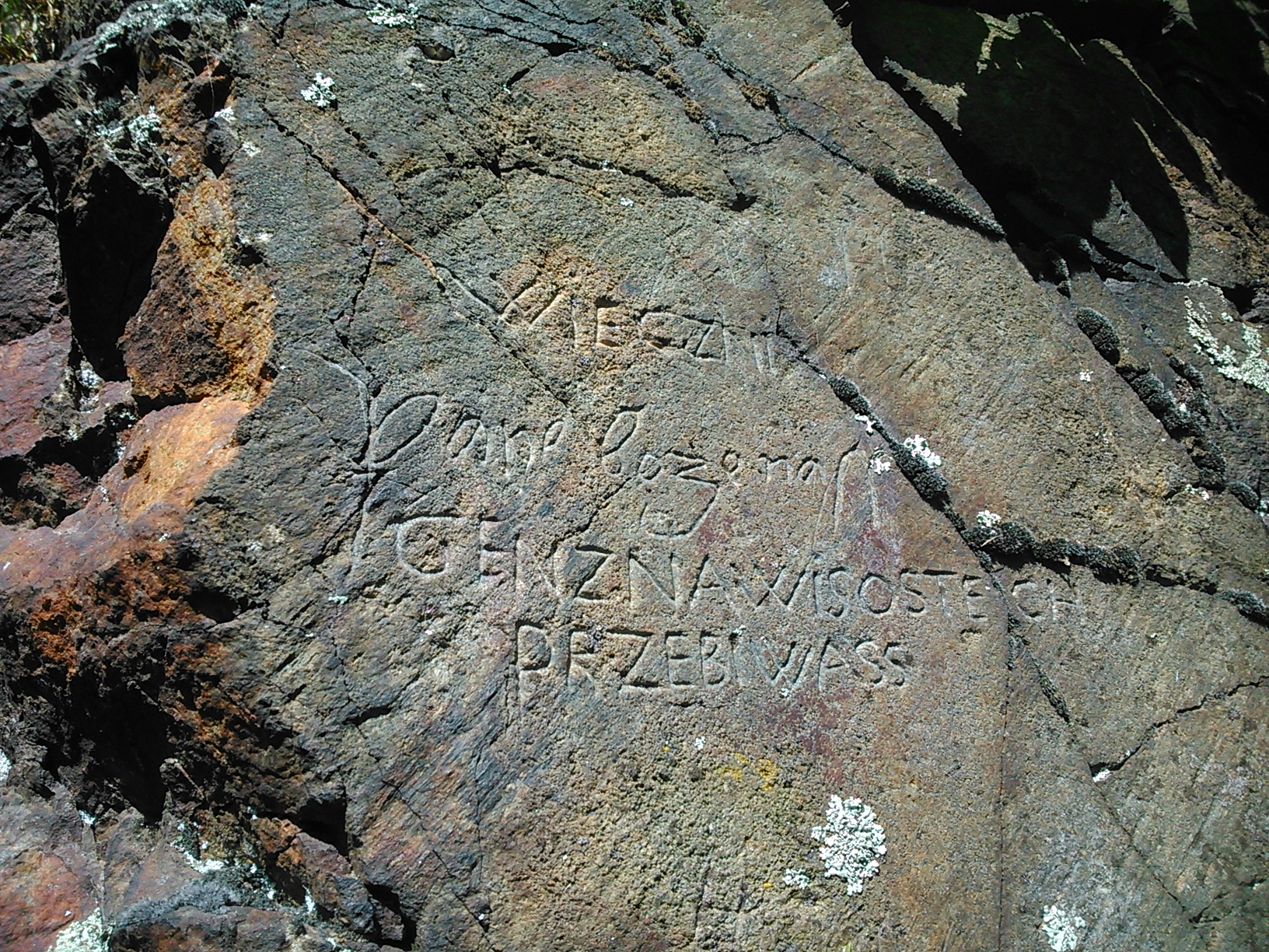 Psané skály (literally Written Rocks), a cultural monument on the right bank of Mastník creek, Poličany (Křečovice), Benešov District, Czech Republic. The inscription says: "Wieczni Pane Bože nass genz na wisostech przebiwass" ("O our eternal Lord God who dwells in the highest!")